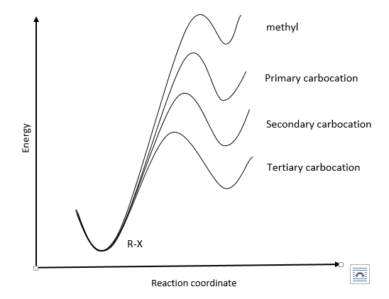 Energy diagrams showing the transition states for SN1 reactions as related to Hammond's postulate